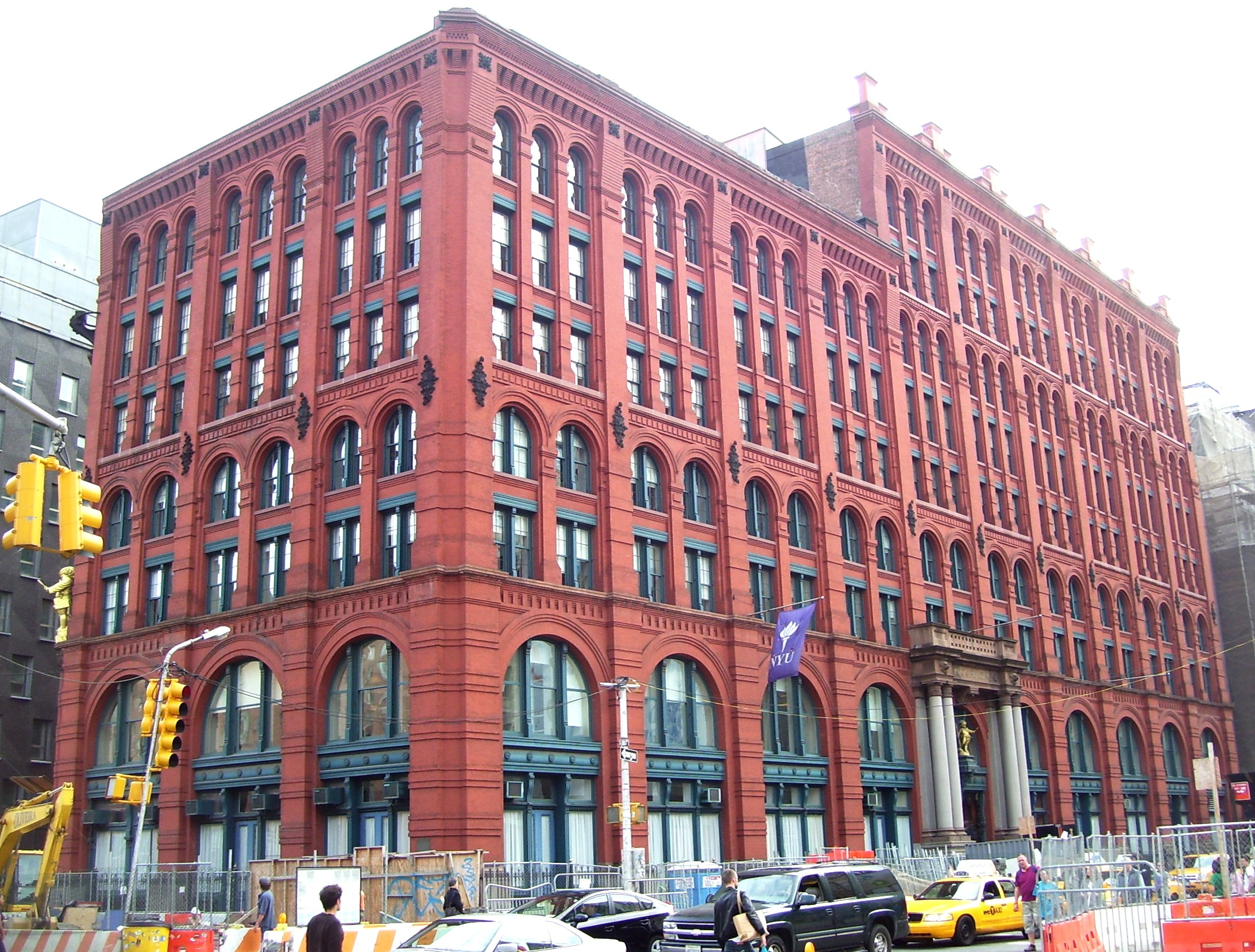 The Puck Building, on Lafayette Street at the corner of East Houston Street in the NoLiTa ("North of Little Italy") district of lower Manhattan, New York City, was designed by Albert Wagner, and constructed in two parts as a printing plant for Puck magazine. The north section was built in 1885-1886, and the south addition in 1892-1893. The front of the building (on Lafayette Street) was relocated in 1899 when the street (then called Elm Street) was widened - this was supervised by Herman Wagner. The building was rehabilitated in 1984-1984 and further renovated in 1995 by Beyer Blinder Belle. The building sports gilded statues of Puck by sculptor Henry Baerer on the northeast corner (at Houston and Mulberry) and over the main entrance on Lafayette. The building is now used by New York University. (source:AIA Guide to NYC, 4th ed.)